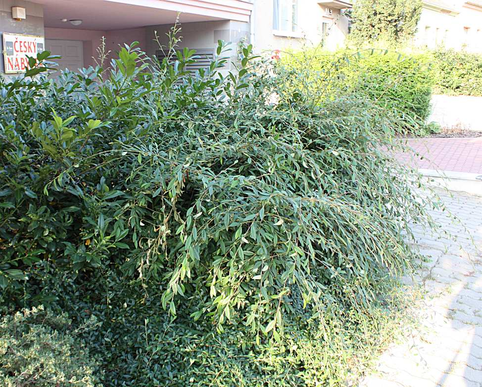 Cotoneaster x watereri,Brno-Komín